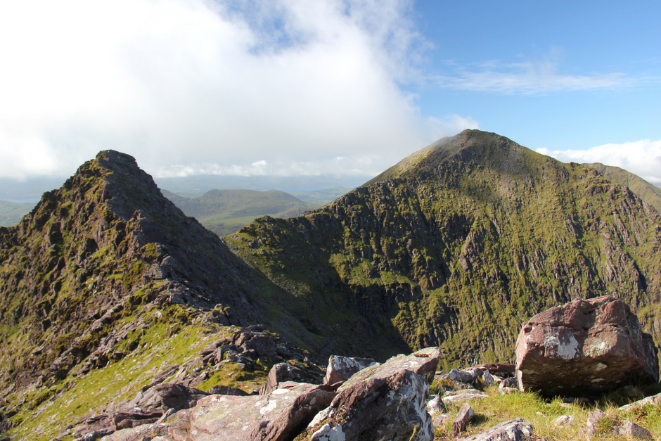 Summit of The Big Gun and Cnoc na Peiste (Knocknapeasta) taken from Cruach Mhor